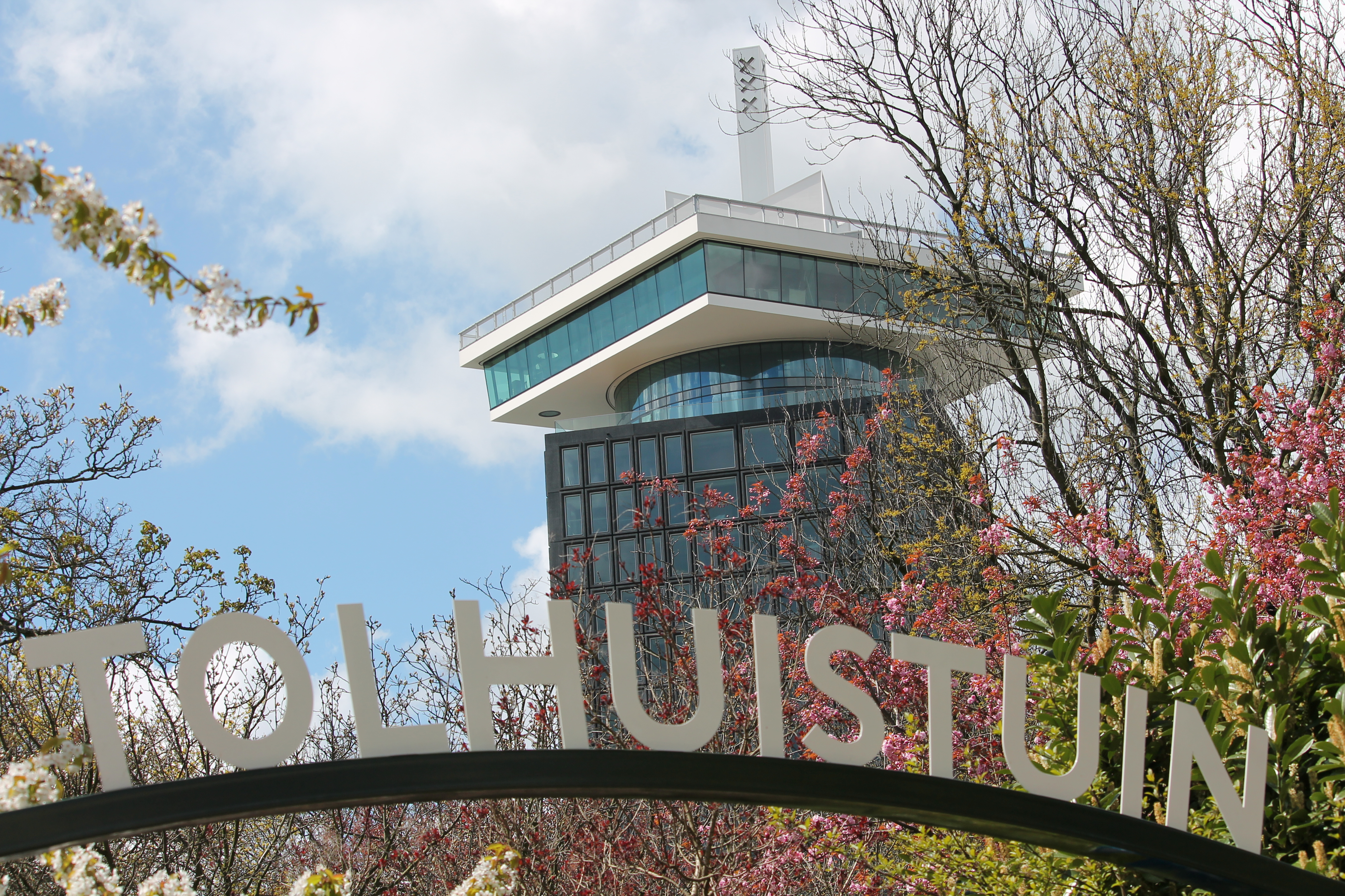 Tolhuistuin in Amsterdam Noord